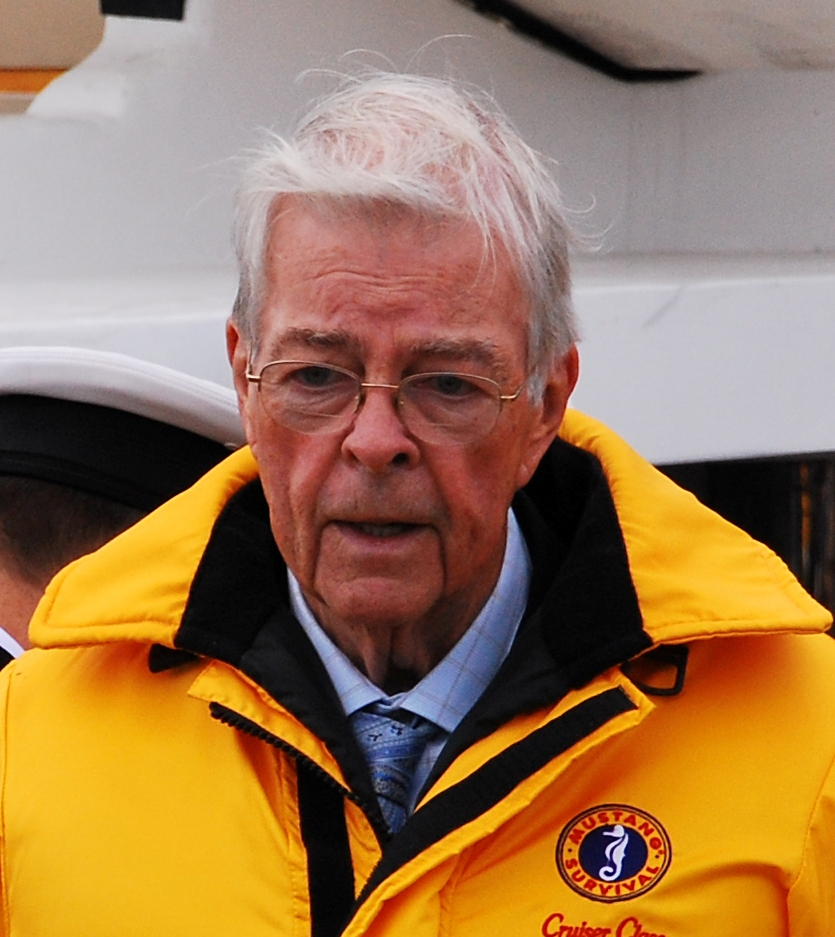 John Crosbie, a former provincial and federal politician from Newfoundland and the current Lieutenant Governor of Newfoundland and Labrador, at an event commemorating the 100th anniversary of the Canadian Navy and the 400th anniversary of the settlement of Cupids, Newfoundland and Labrador (the oldest continuously settled official British colony in Canada and possibly the oldest in North America (debatable with Hampton, Virginia)).